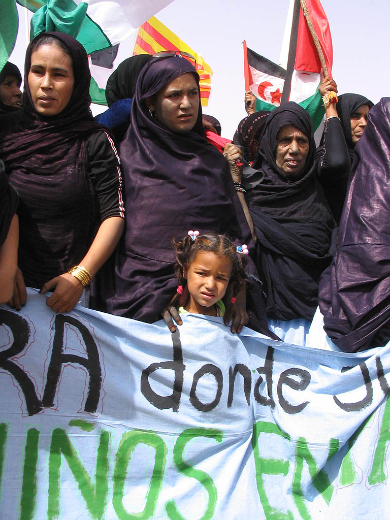 Uploader's note: According to other images taken by this photographer, I would place the location of this protest somewhere south of Mahbes, Western Sahara, in the freed zone.